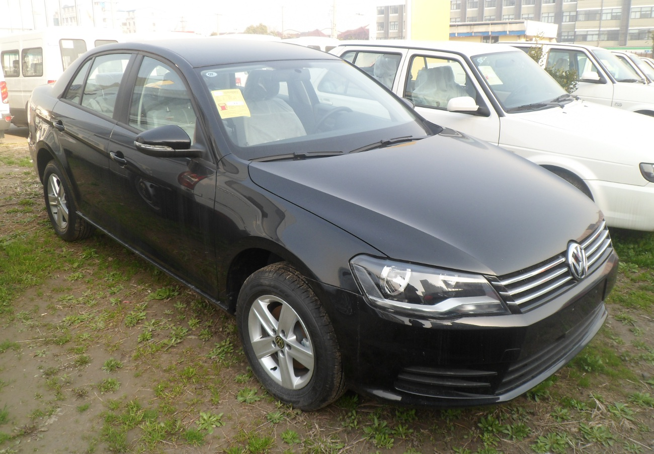 Volkswagen Bora CN II facelift photographed in Shanghai, China.